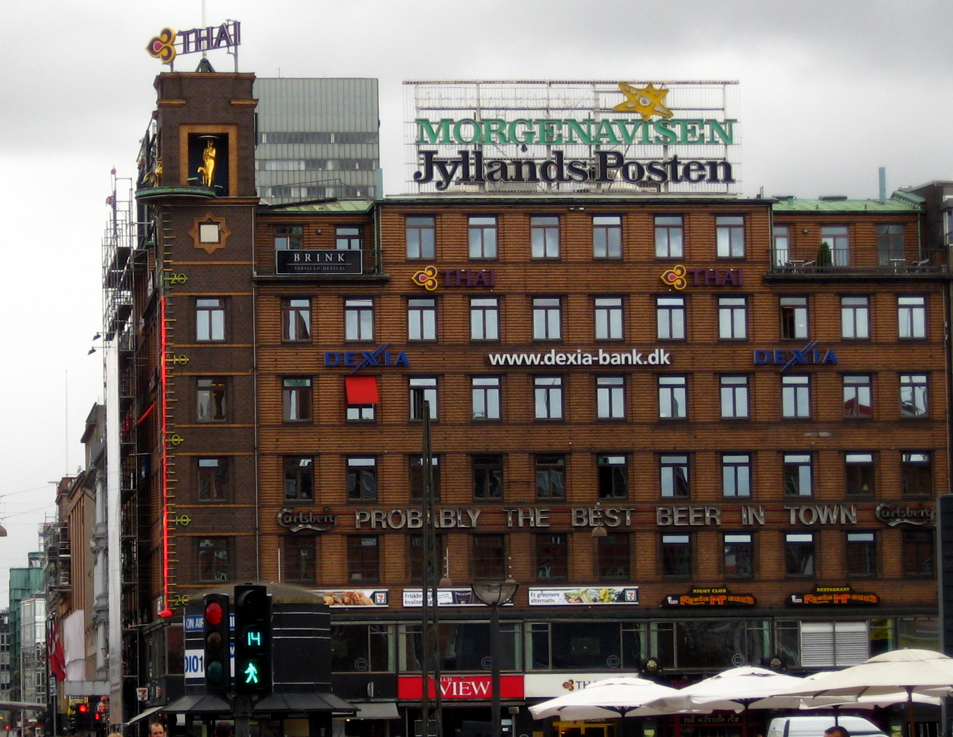 Logo of the Danish newspaper Jyllands-Posten on a building in Copenhagen